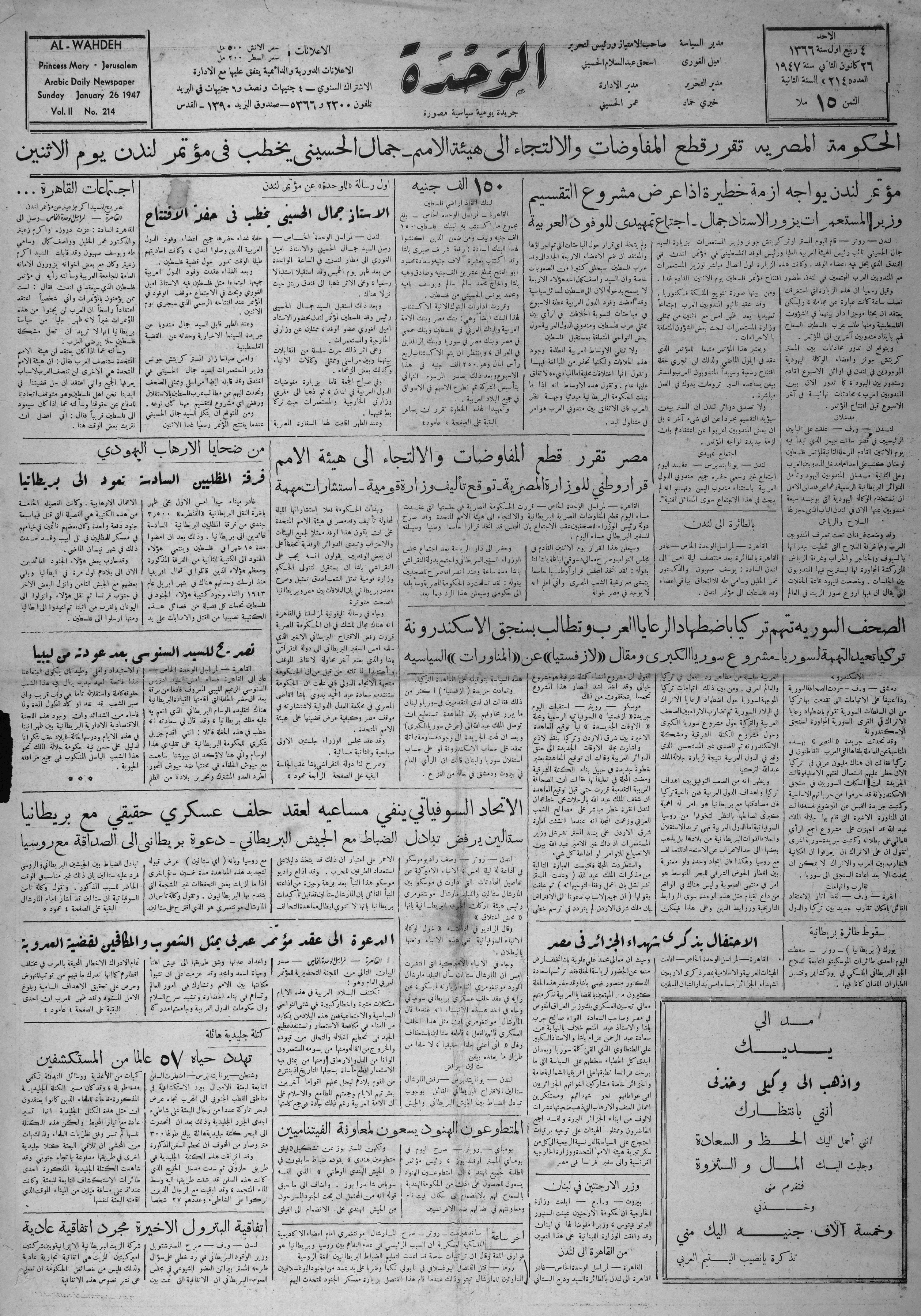 Palestinian newspaper